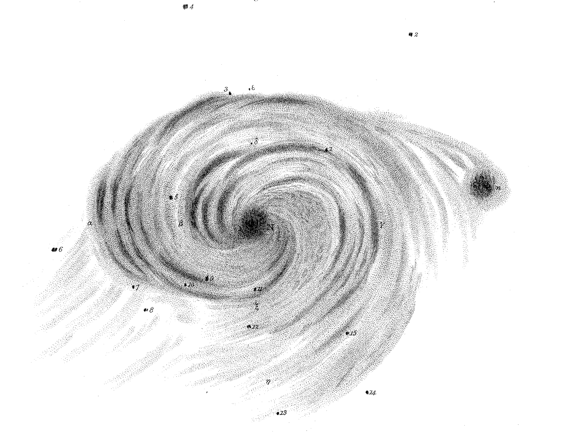 First sketch of a spiral "nebula" (i.e., galaxy), as published in 1850 by Lord Rosse